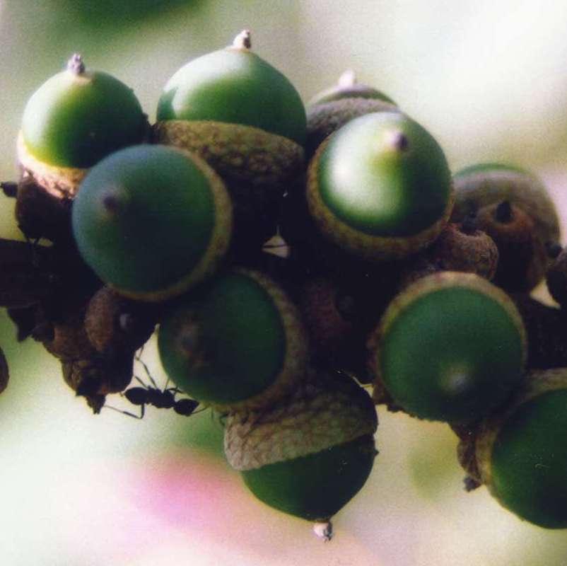 Acorns from the species Lithocarpus collettii (image wrongly named after Cyclobalanopsis kerrii syn. Quercus kerrii). Photo taken by User:Ahoerstemeier on July 14 2003 in Pa Hin Ngam National Park, Chaiyaphum province, Thailand.